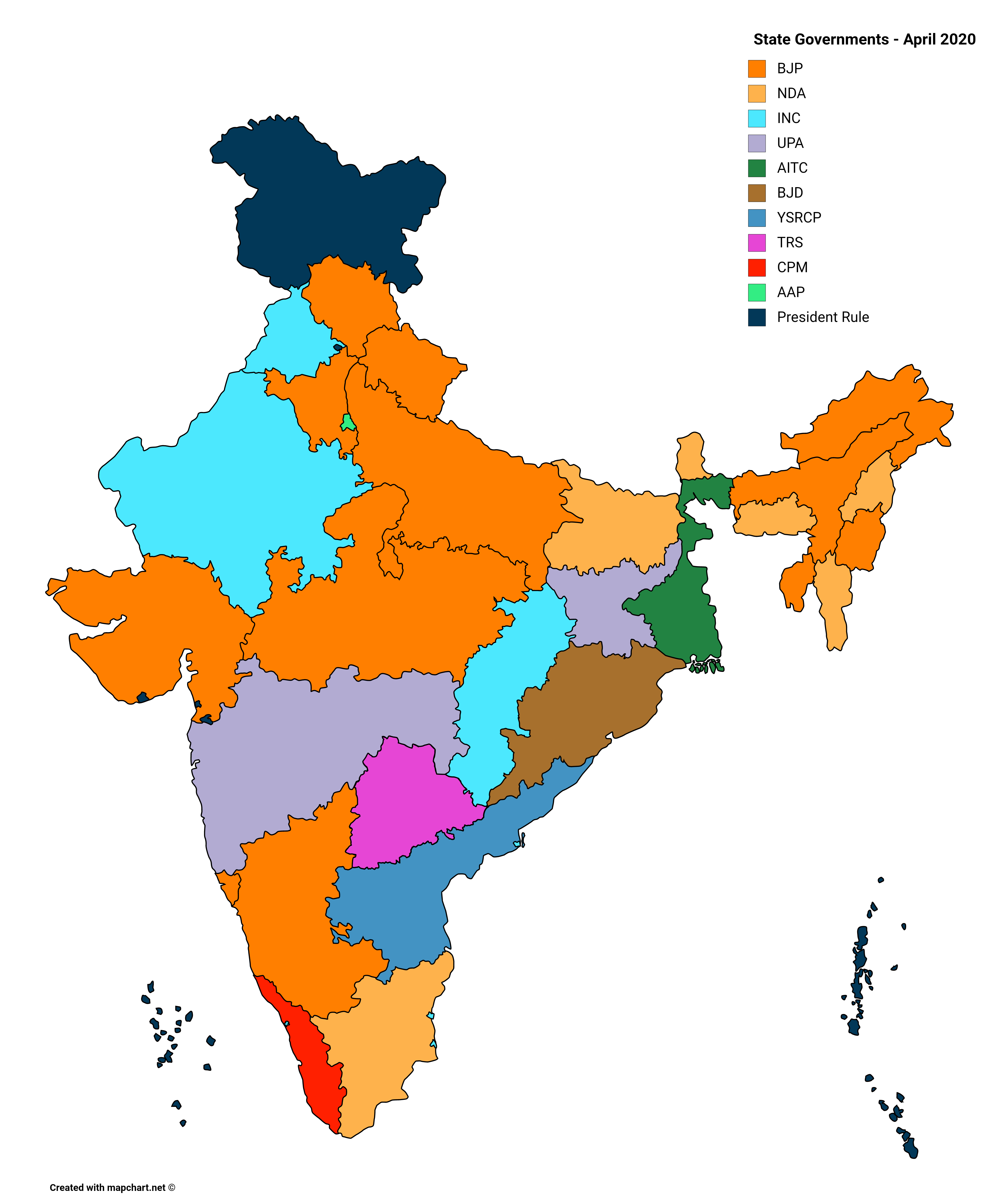 Bharat me rajya sarkaar